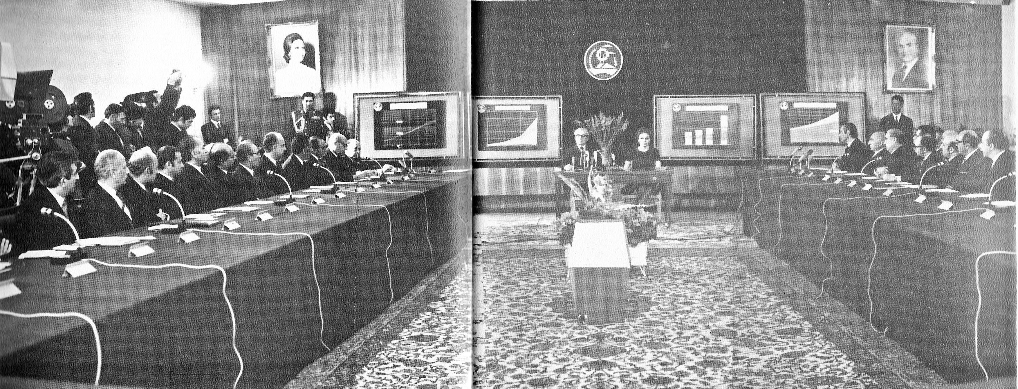 Shahanshah Arymehr in Plan and Budget Organization talks about the main economic policy in Iran